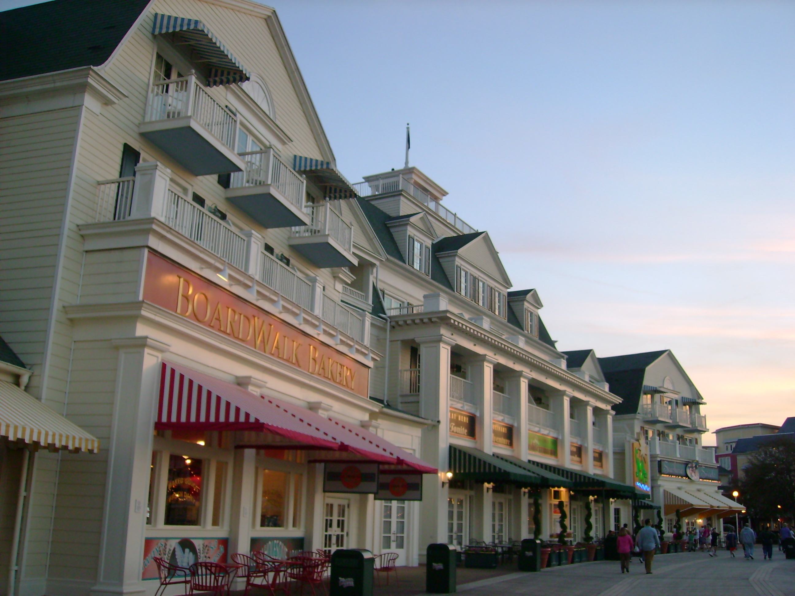 The Boardwalk Bakery, Spoodels, and Salty Sweets at Boardwalk Inn.